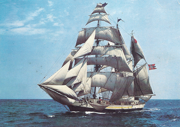 Regina Maris moonraker and studding sails